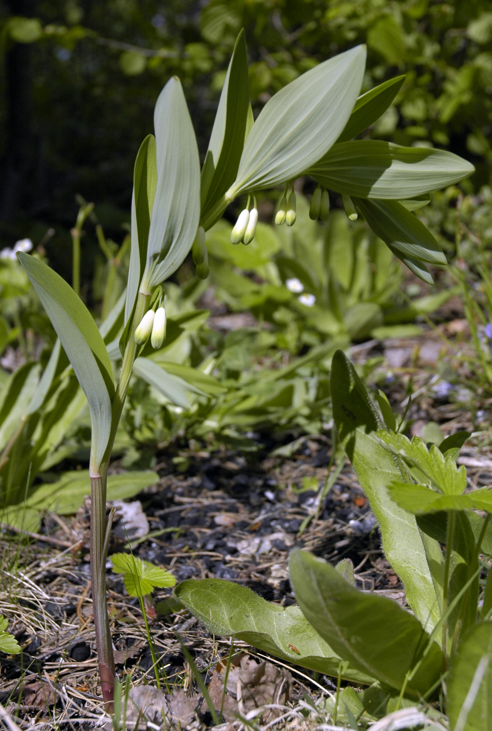 A hybrid of Polygonatum odoratum and P. multiflorum. The stem is rounded at the lower end, with edges higher up. 2 flowers together like P. multiflorum, a ring low on the stem like P. odoratum. Photograph taken on limestone-rich ground in Røyken, Norway.